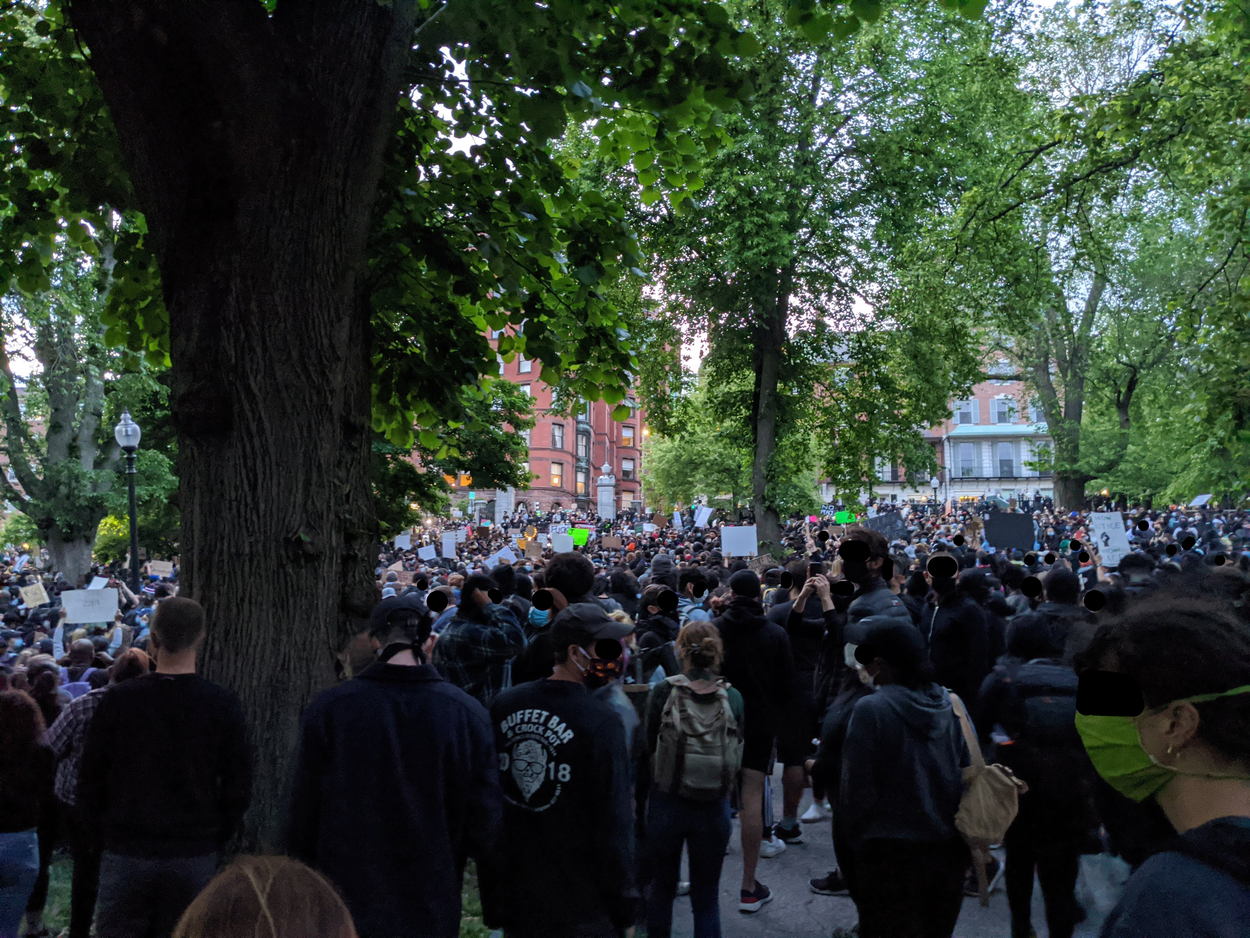 Protest against police brutality and the killing of George Floyd in Boston, MA. March from Nubian Square ends in Boston Common for a protest in front of the State House.